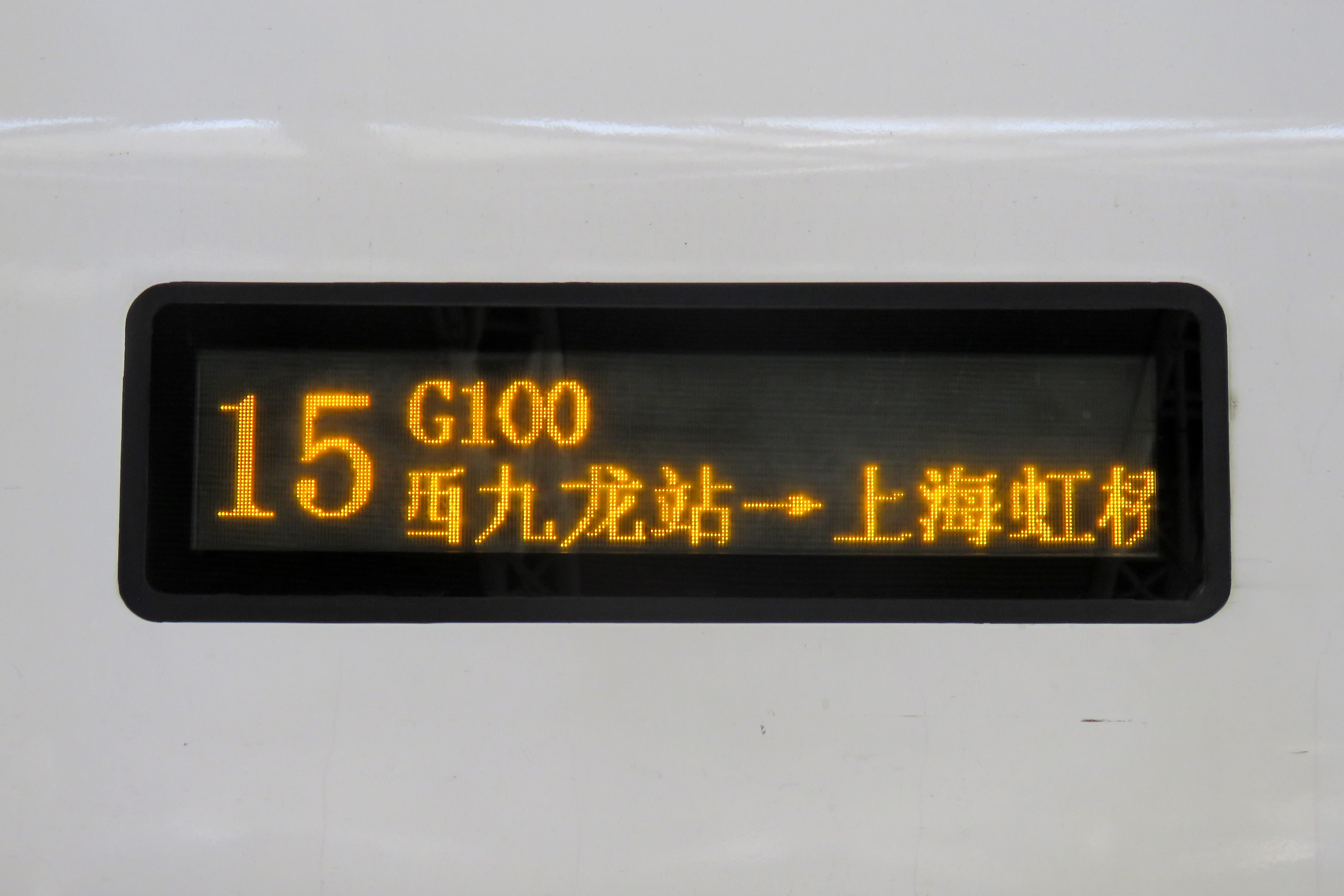 One of the three trains between Hong Kong and Changsha.